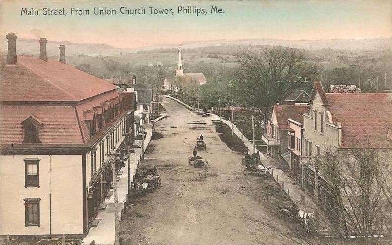 Main Street, from the Union Church tower, Phillips, Maine